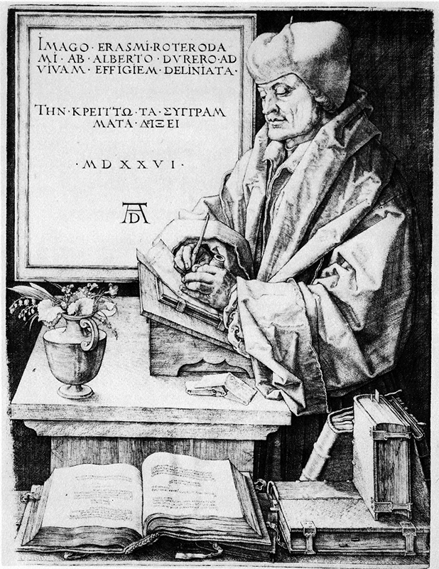 Engraved portrait of Desiderius Erasmus by the German artist Albrecht Dürer